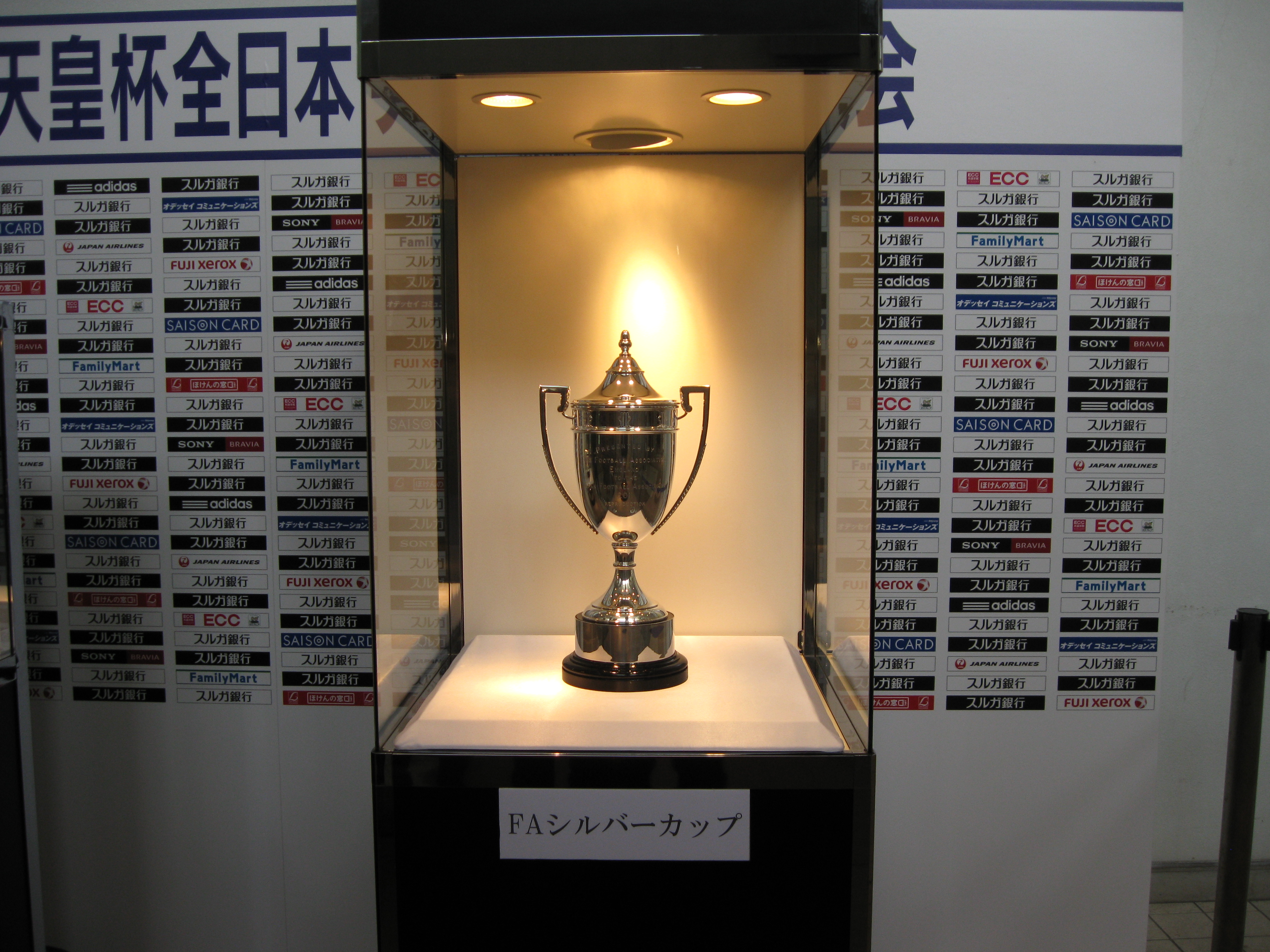 The replica of FA Silver Cup, displayed in Nagai Stadium, Osaka.